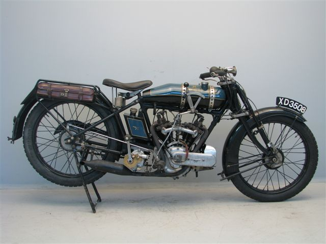 Martinsyde 678 cc V-twin motorcycle from 1922